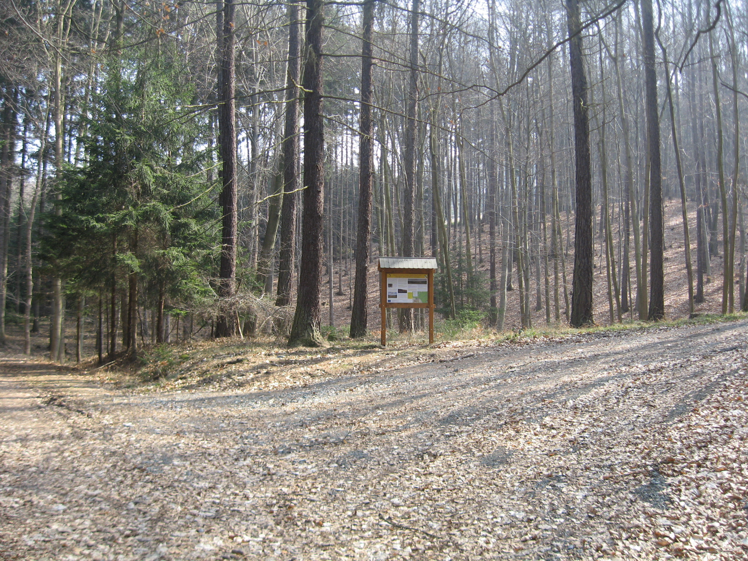 Information table in educational trail Coal trail in Kroučová